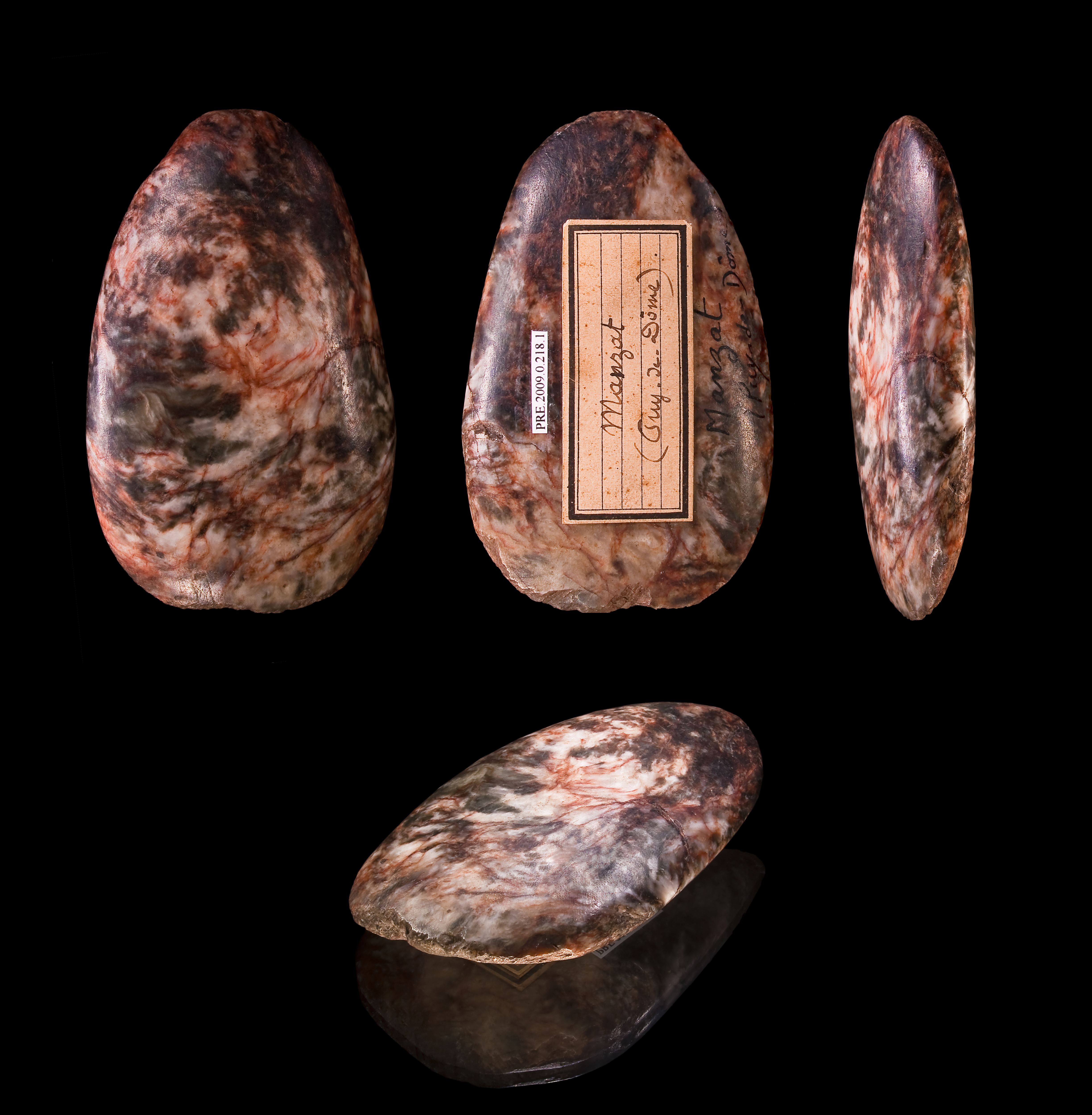 Polished Neolithic axe Manzat, Puy-de-Dôme Department, France Quartz and Sillimanite Museum of Toulouse MNHT PRE.2009.0.218.1 Size (82x51x19mm)